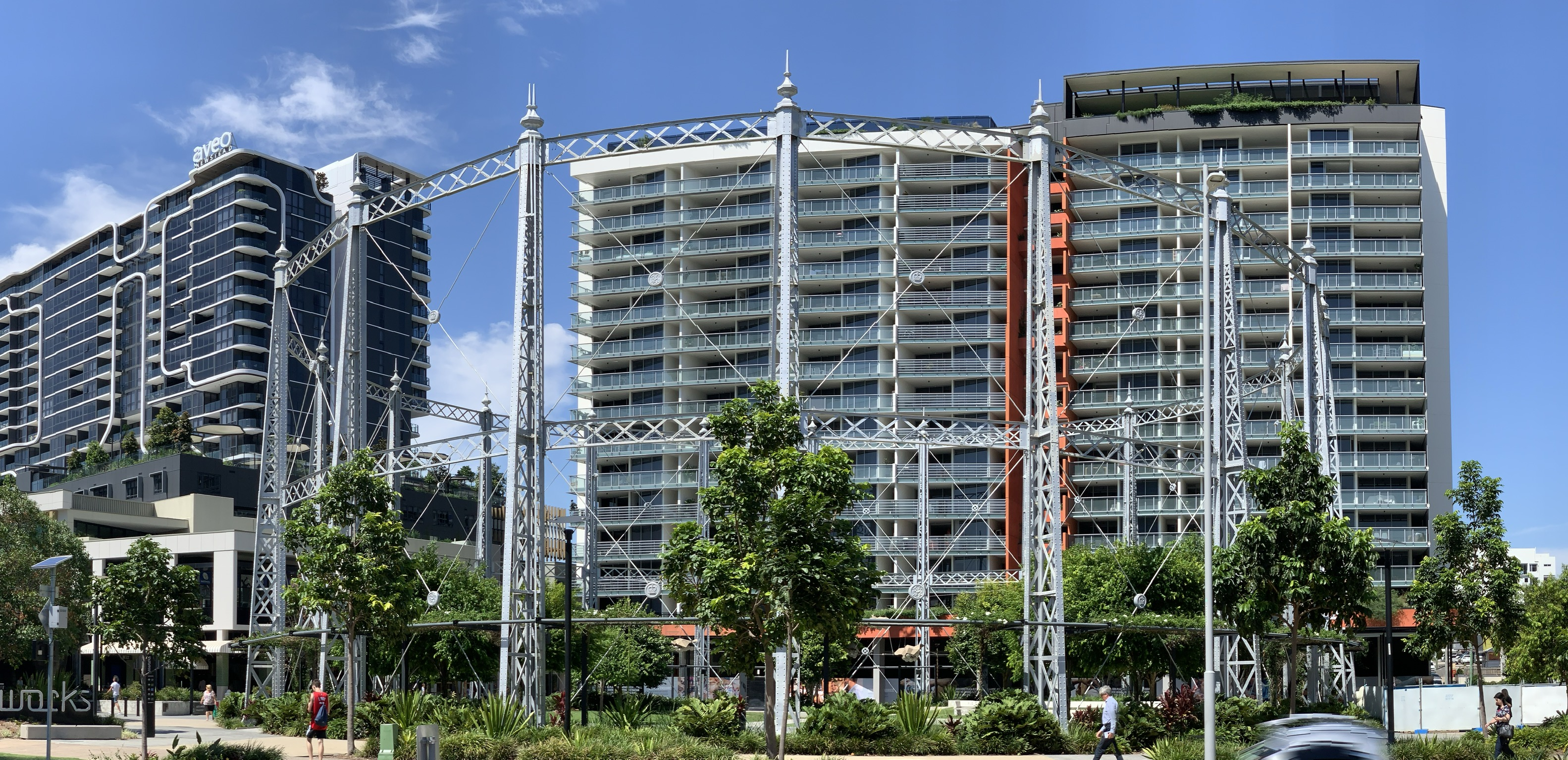 Gasometer, Newstead, Brisbane in March 2019